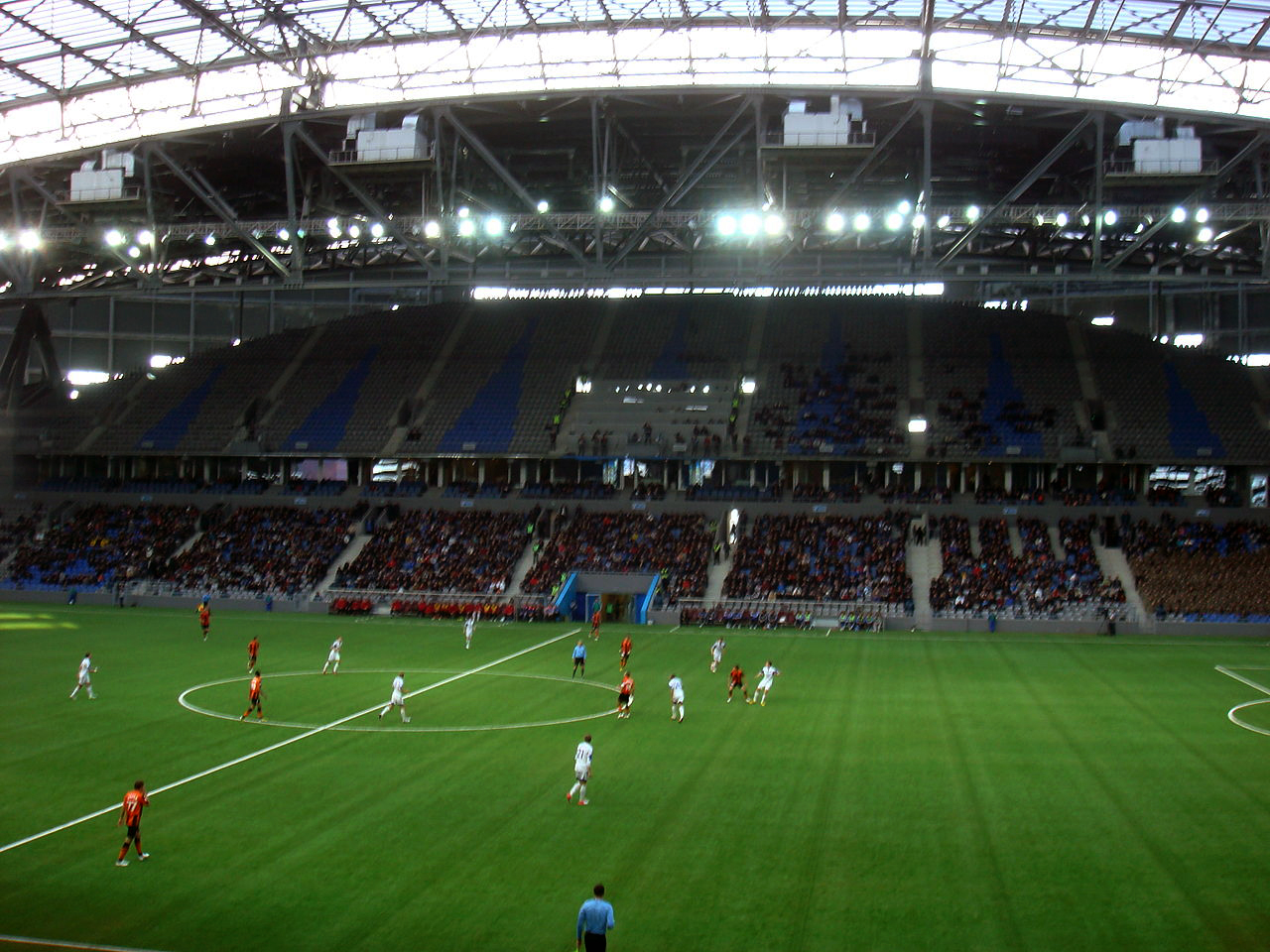 FC «Shakhter» Karaganda - FC «Astana» match for Kazakhstan Supercup on Astana Arena.